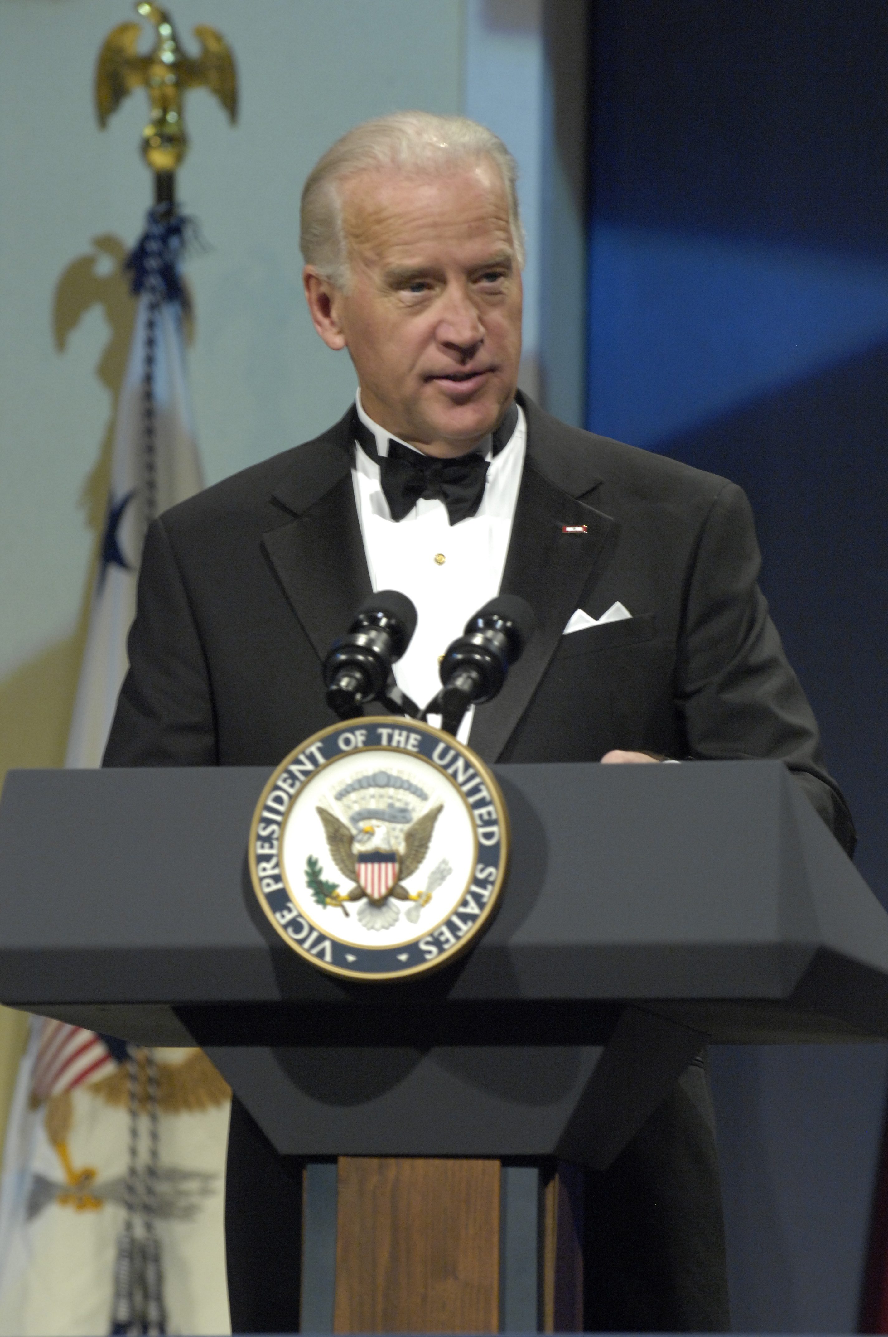 Vice President Joe Biden speaks during the Commander-in-Chief's Ball in downtown Washington, D.C., Jan. 20, 2009. More than 5,000 men and women in uniform are providing military ceremonial support to the presidential inauguration, a tradition dating back to George Washington's 1789 inauguration.